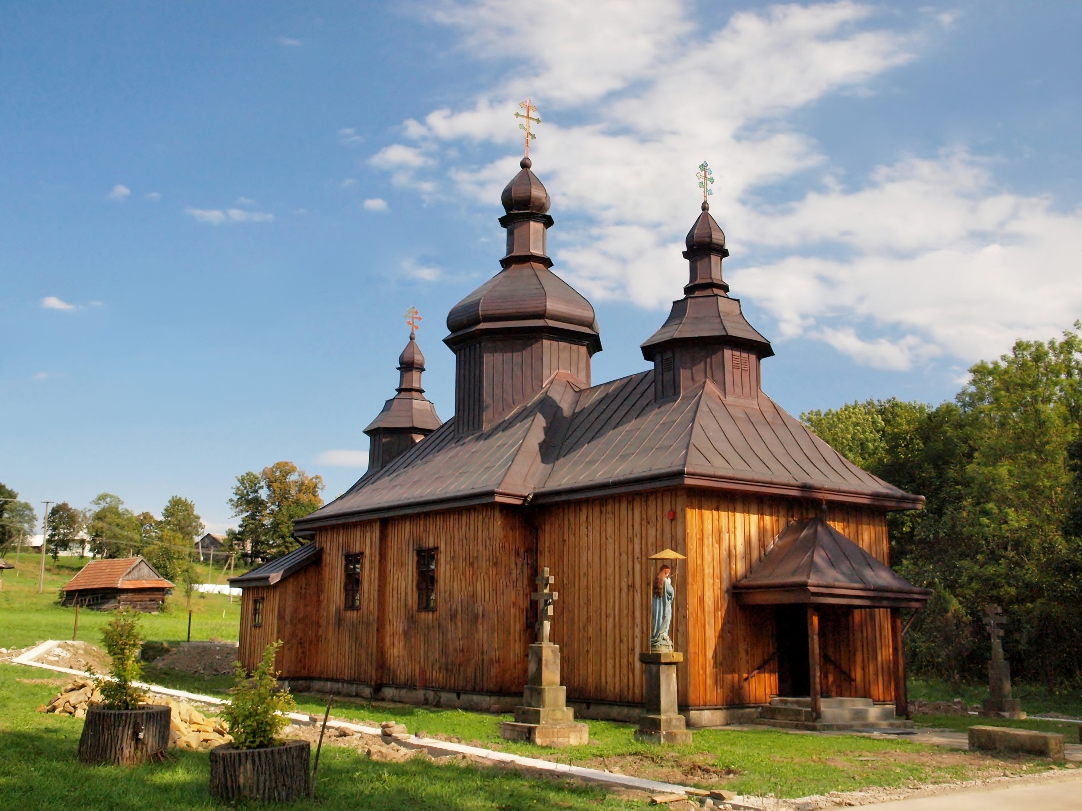 Bartne - Lemko Orthodox Church of St. St. Cosma and Damian